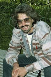 Ivan Popov, Bulgarian writer